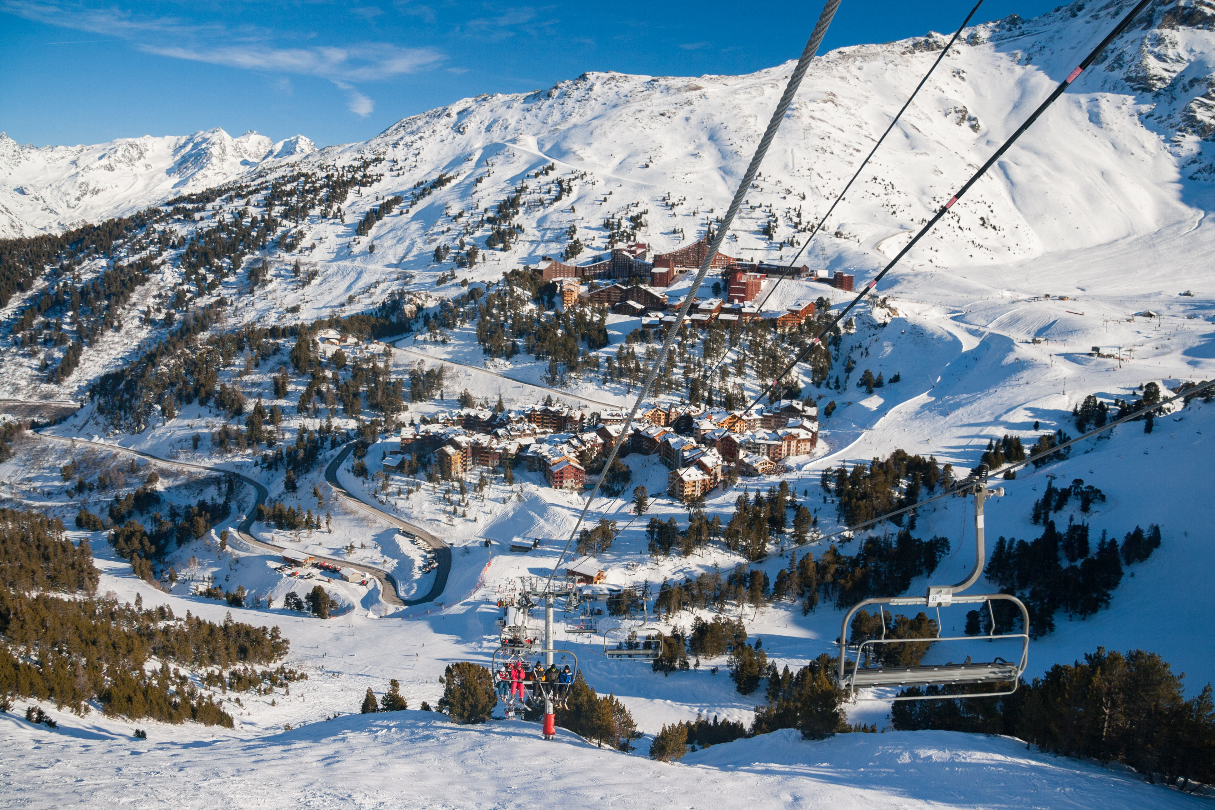 View of Les Arcs 1950 and 2000